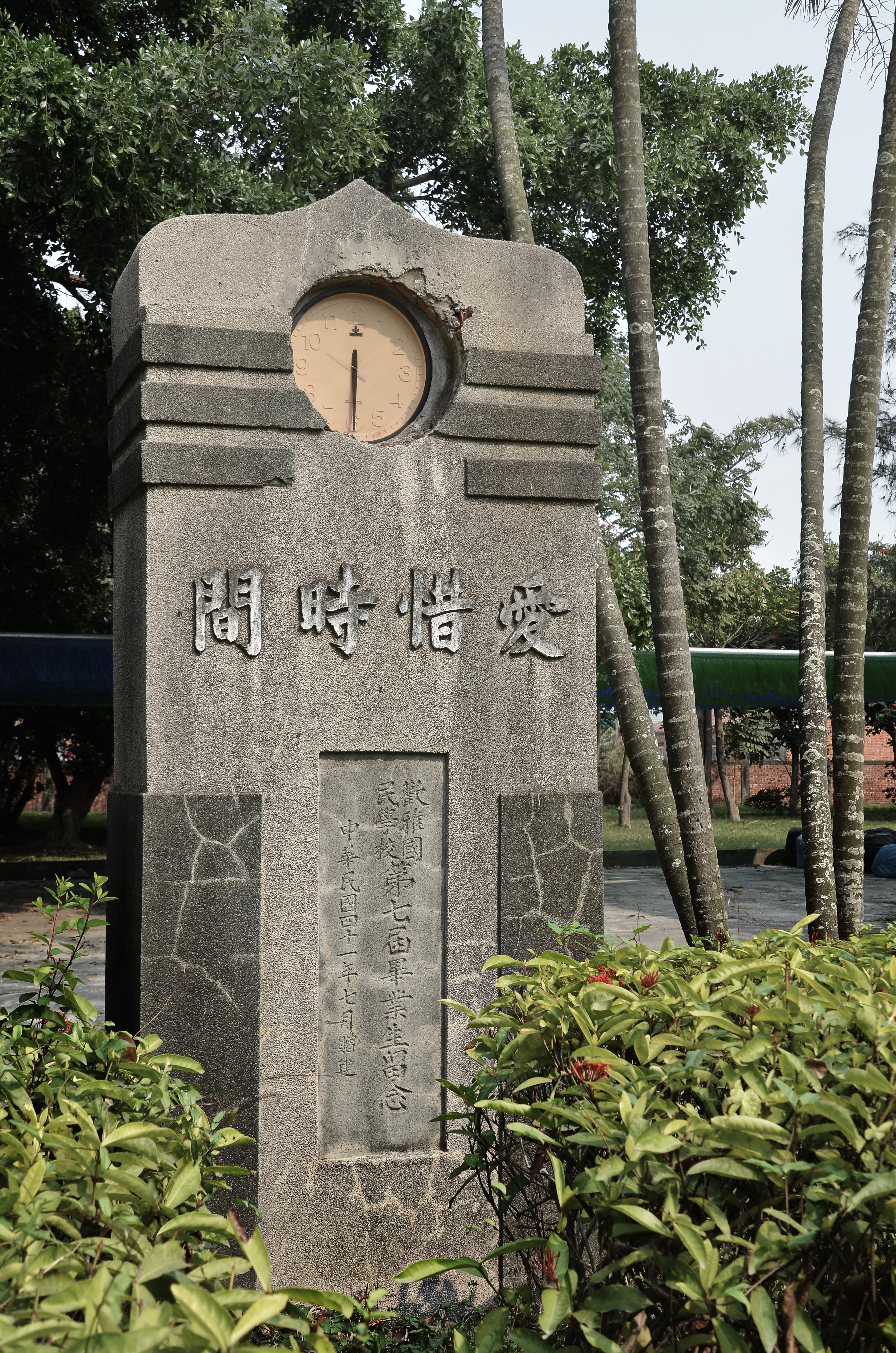 Tainan City Huan-Ya Elementary School, Floor Clock, Yanshui District, Tainan City, Taiwan.